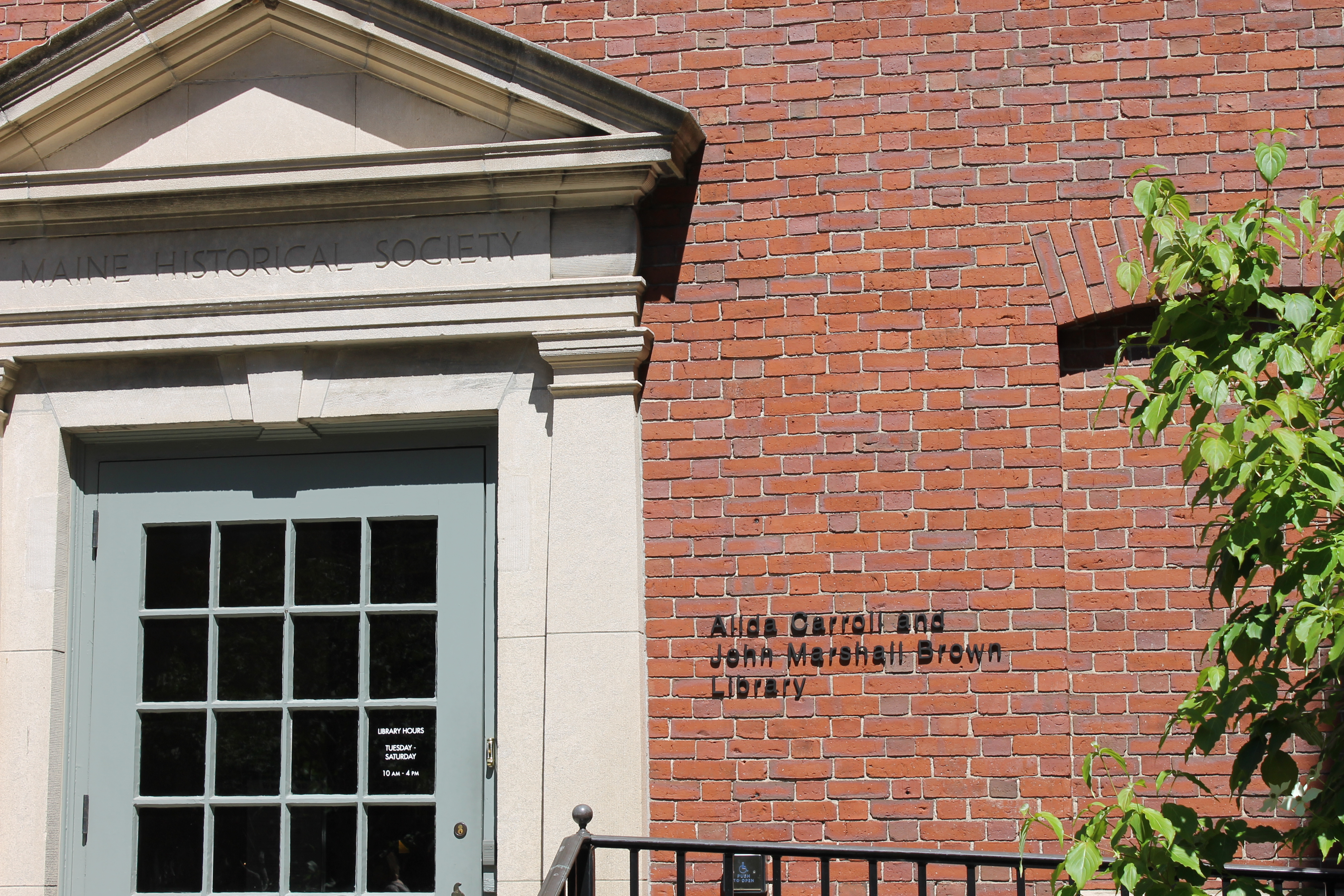 I took photo with Canon camera of Alice Carroll and John Marshall Brown at Wadsworth=Longfellow House in Portland, ME.